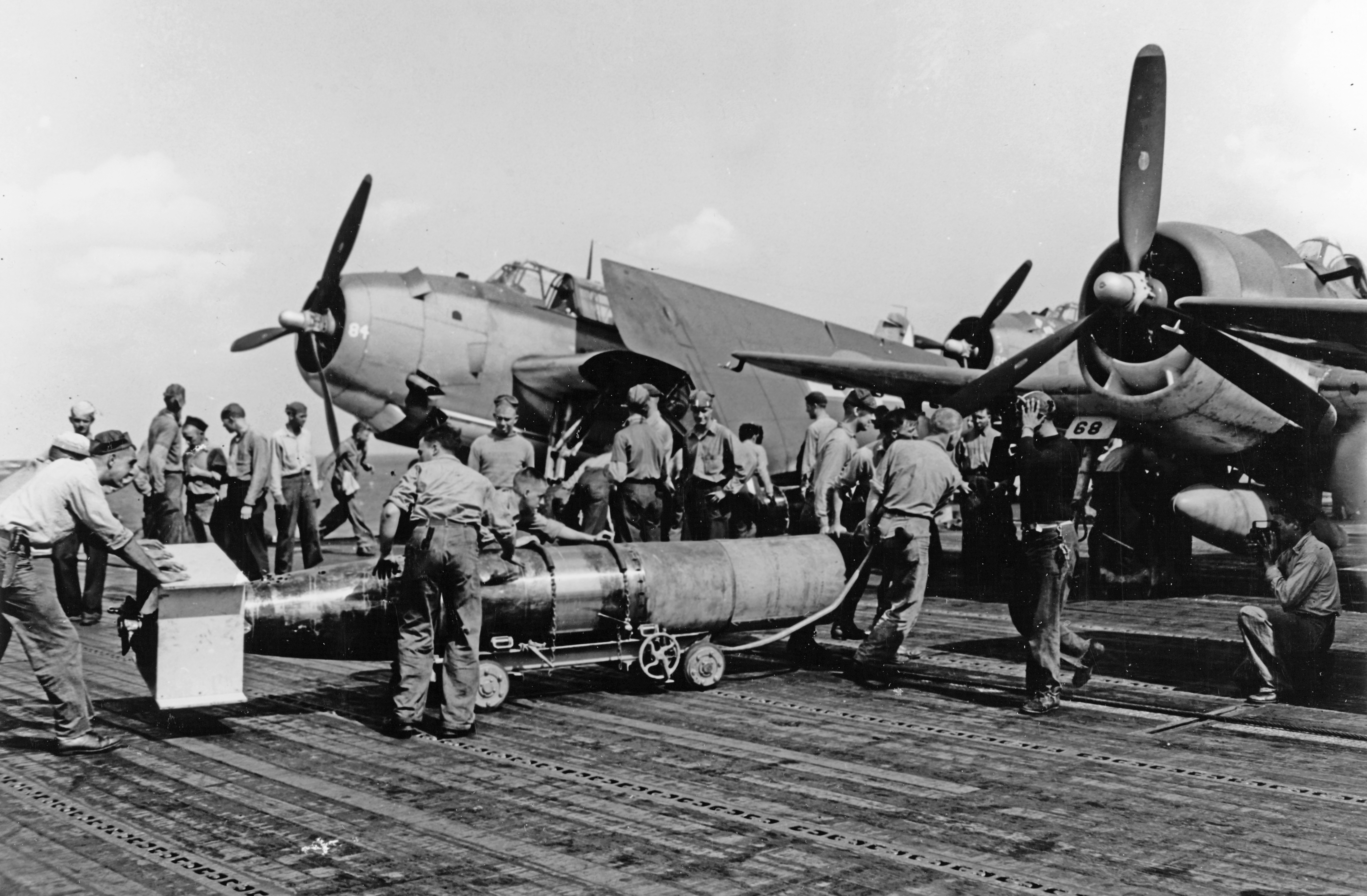 U.S. Navy flight deck crews aboard the aircraft carrier USS Wasp (CV-18) prepare to load a Mark XIII torpedo on a Grumman TBM Avenger of Torpedo Squadron 14 (VT-14), during strikes in the Luzon-Formosa area, 13 October 1944. Note the plywood shrouds on the torpedo's fins and nose. The plane at right is a Grumman F6F Hellcat of Fighting Squadron 14 (VF-14), others visible are TBMs.